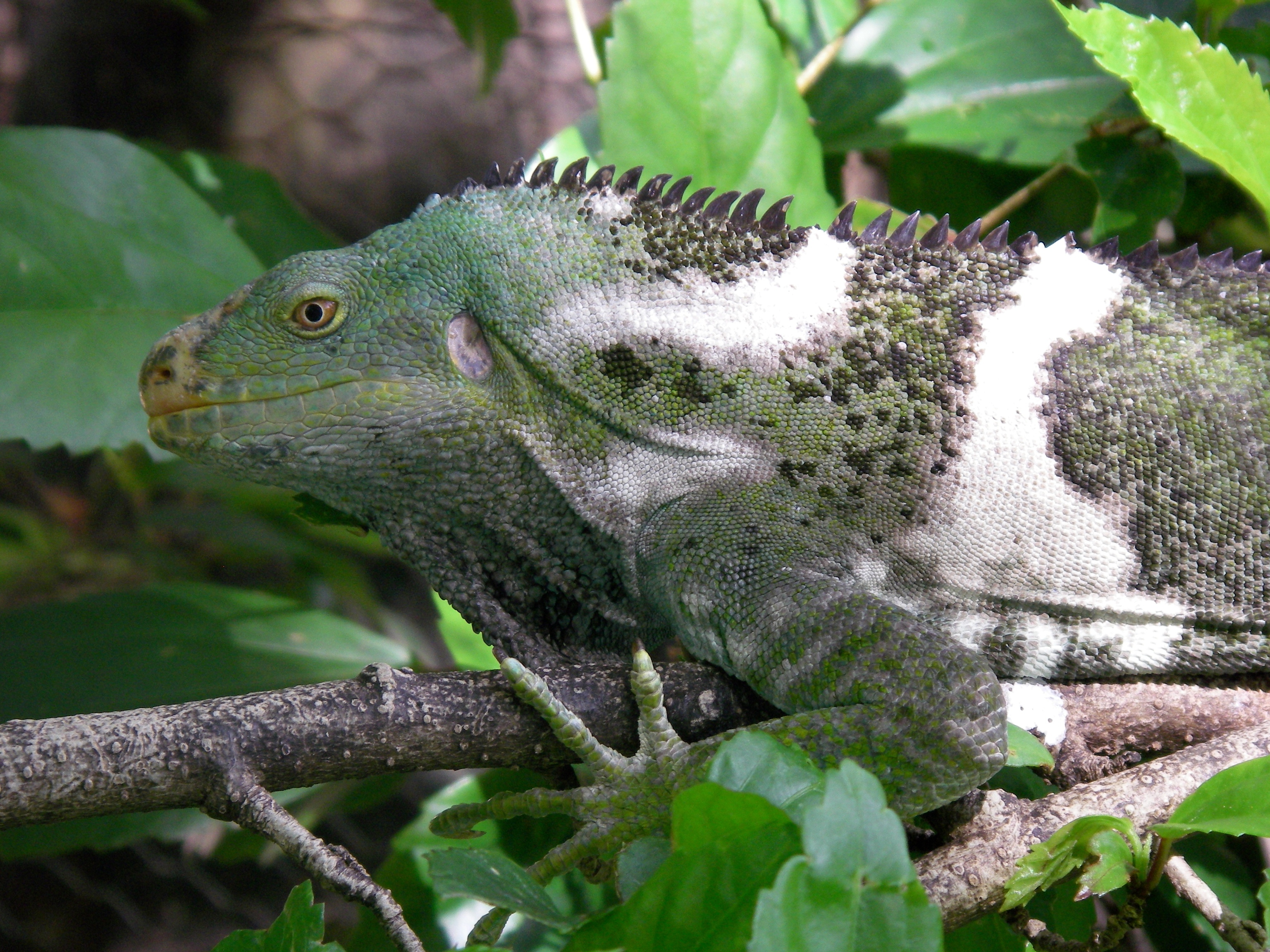 An endangered Crested Iguana. This is a male that can change his colour from green to black when aroused.